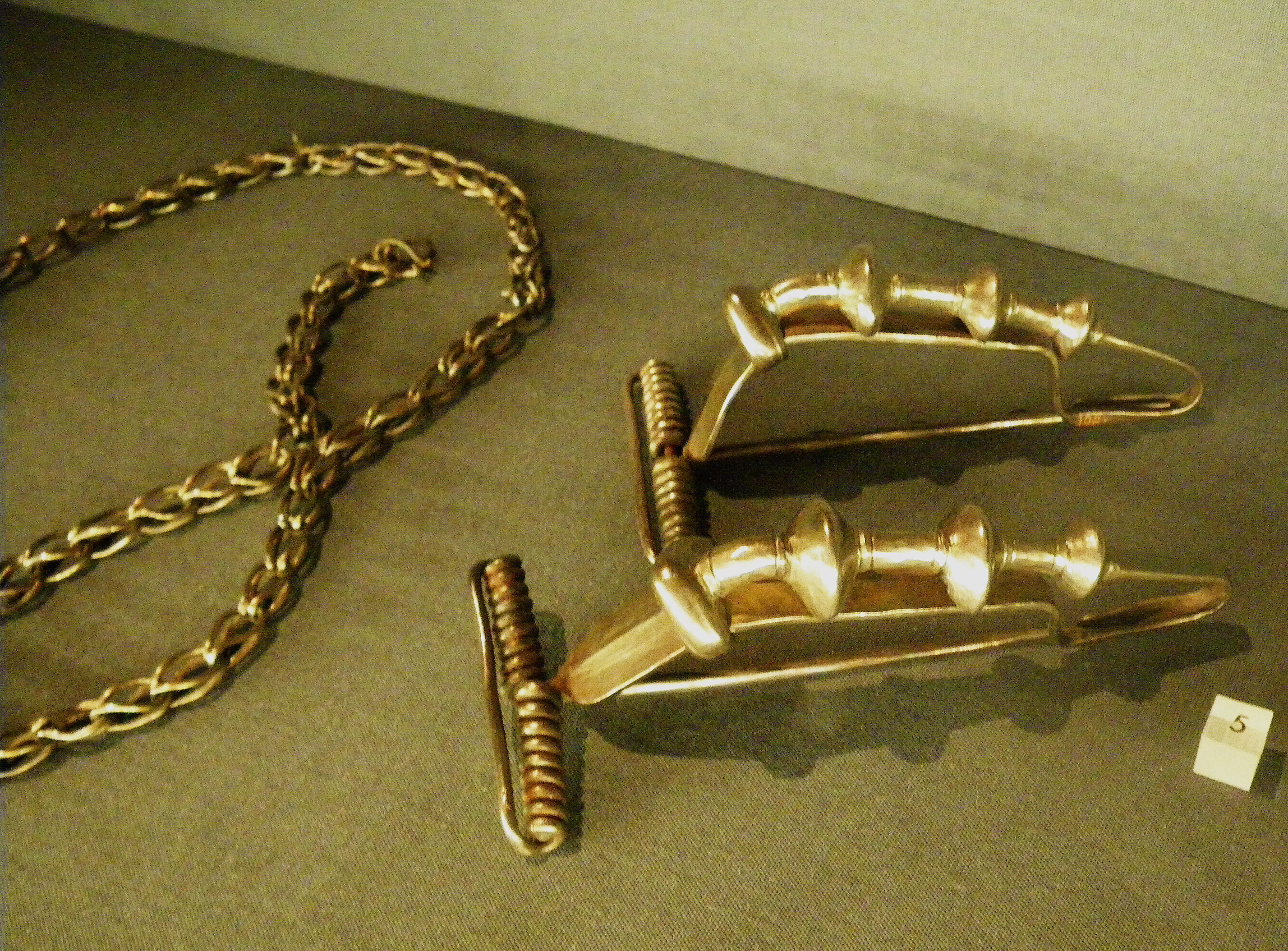 Dacian Gold exposed Kunsthistorisches Museum